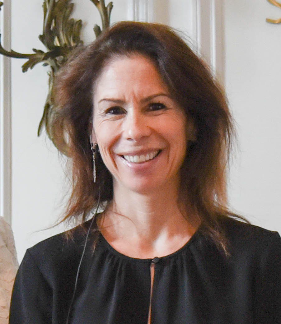 Populism and the Future of Liberal Democracy in the West - A Lecture by Sheri Berman. At Boston University Center for the Study of Europe. Thursday, September 20, 2018.